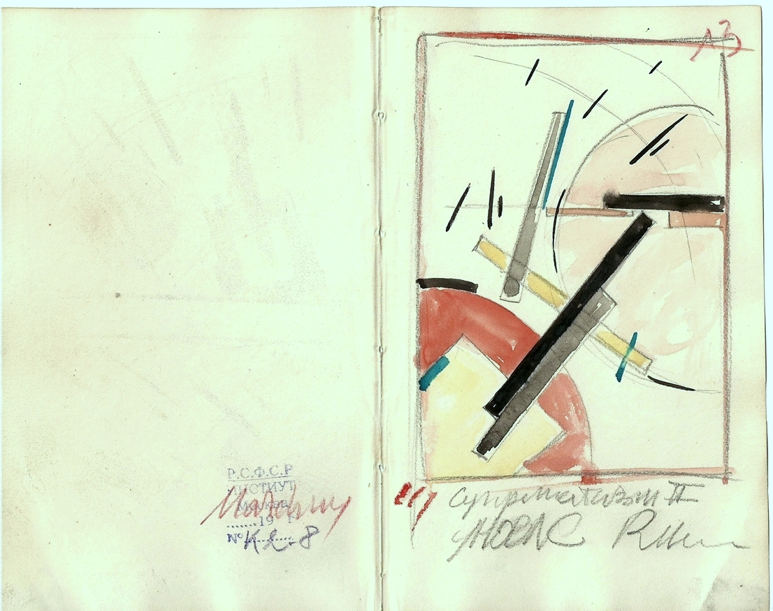 Kasimir Malevich sketchbook, K2-13 Archive of Dr. Yevgeny Levitin